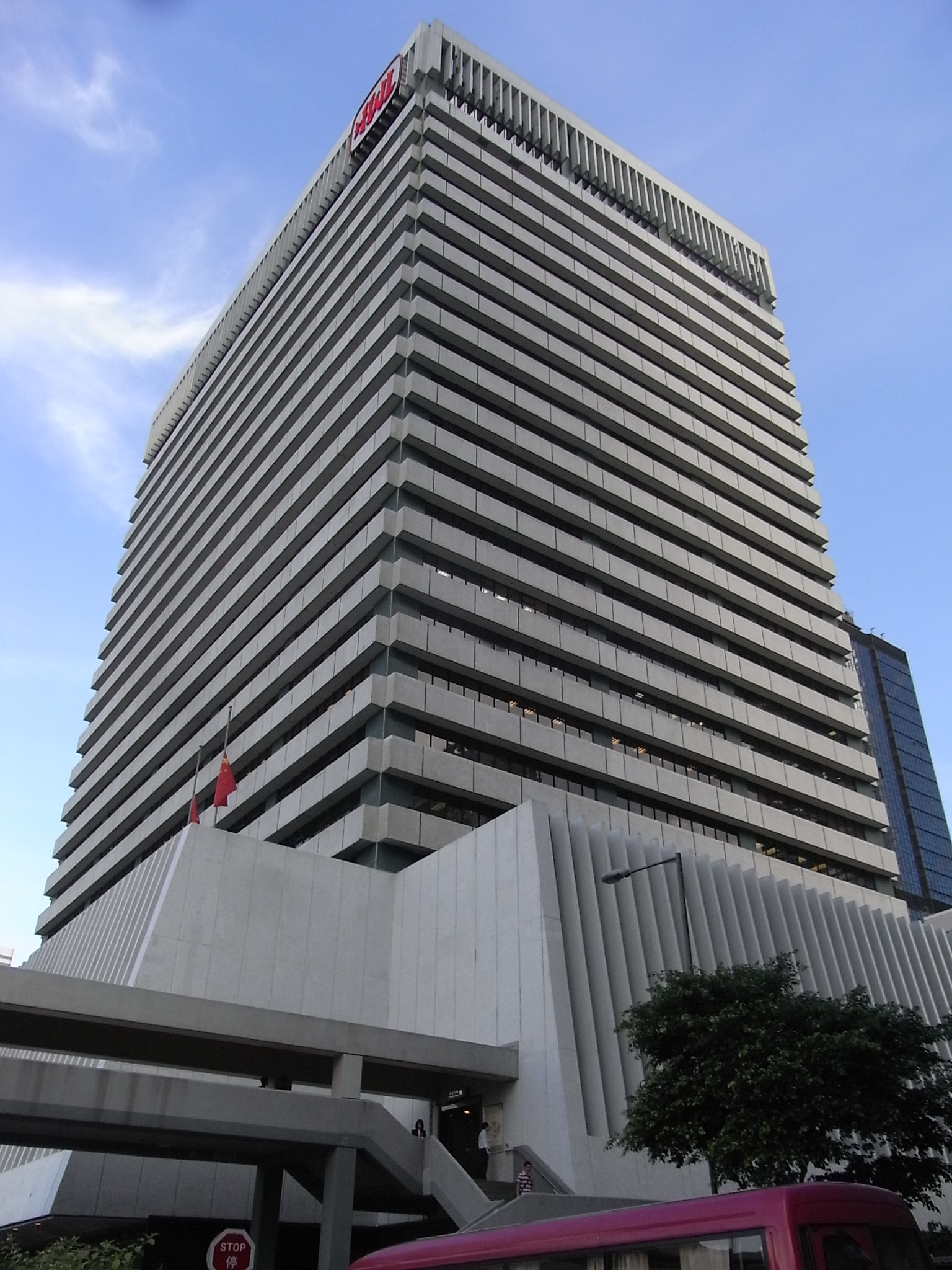 香港島金鐘 和記大廈